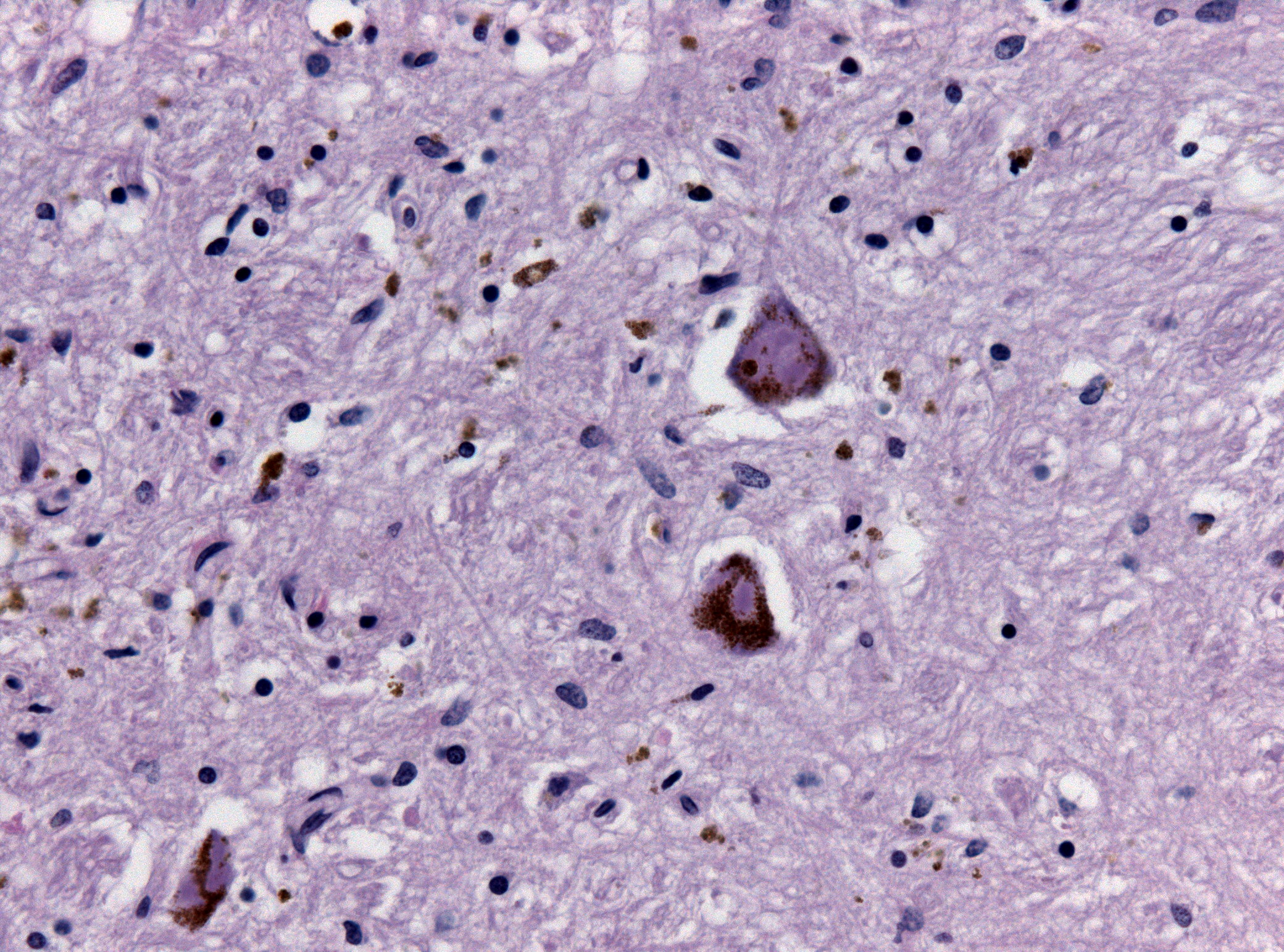 Biopsy specimen displaying eosinophilic inclusions in nigral neurons (HE stain, x200 magnification)